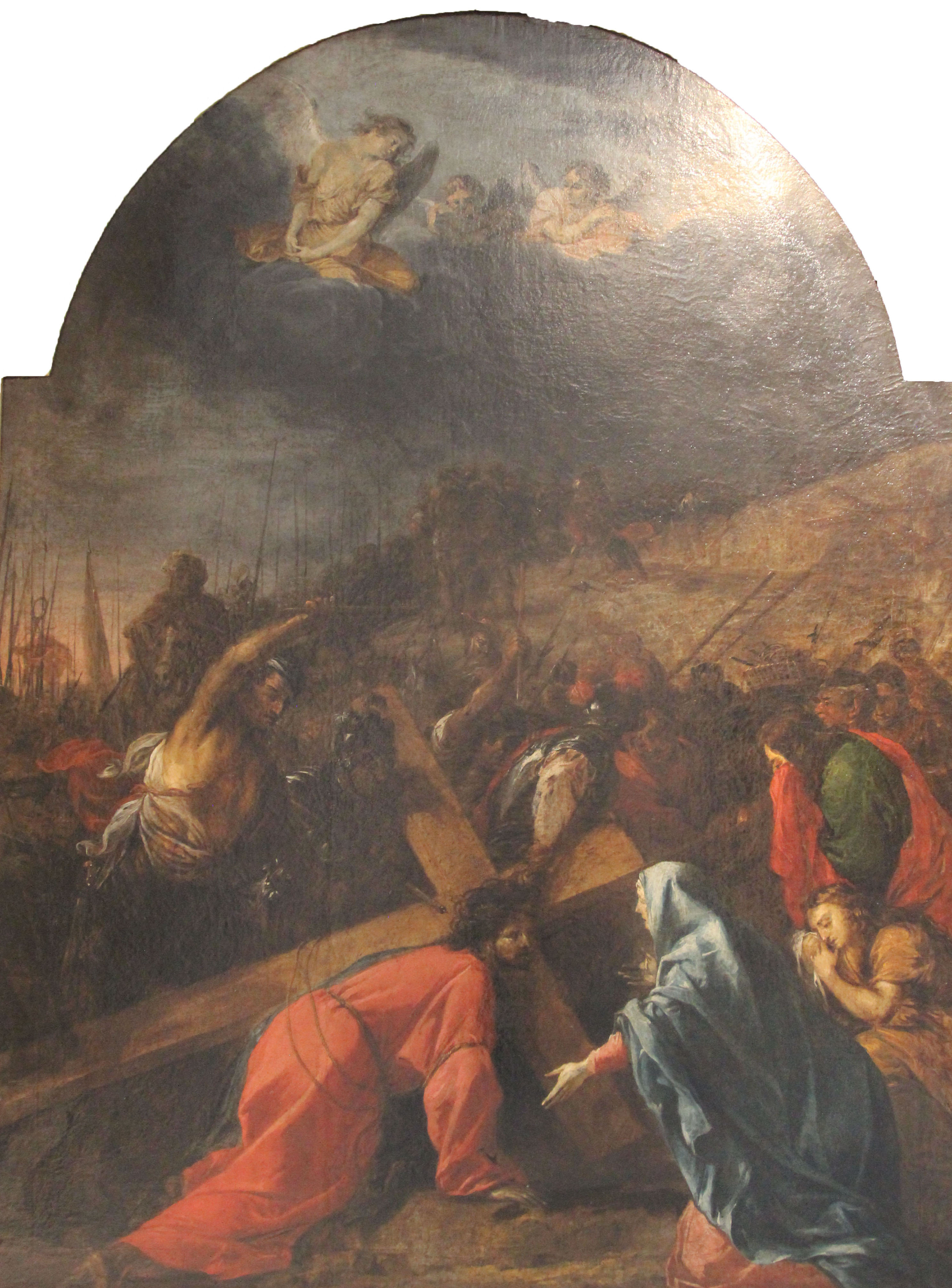 Michael Willman Christ Falls under the Weight of the Cross for the First Time (ca 1682) from National Museum in Wroclaw (originally in Cistercian monastery Krzeszów Abbey - chapel of the Sacred Stairs).